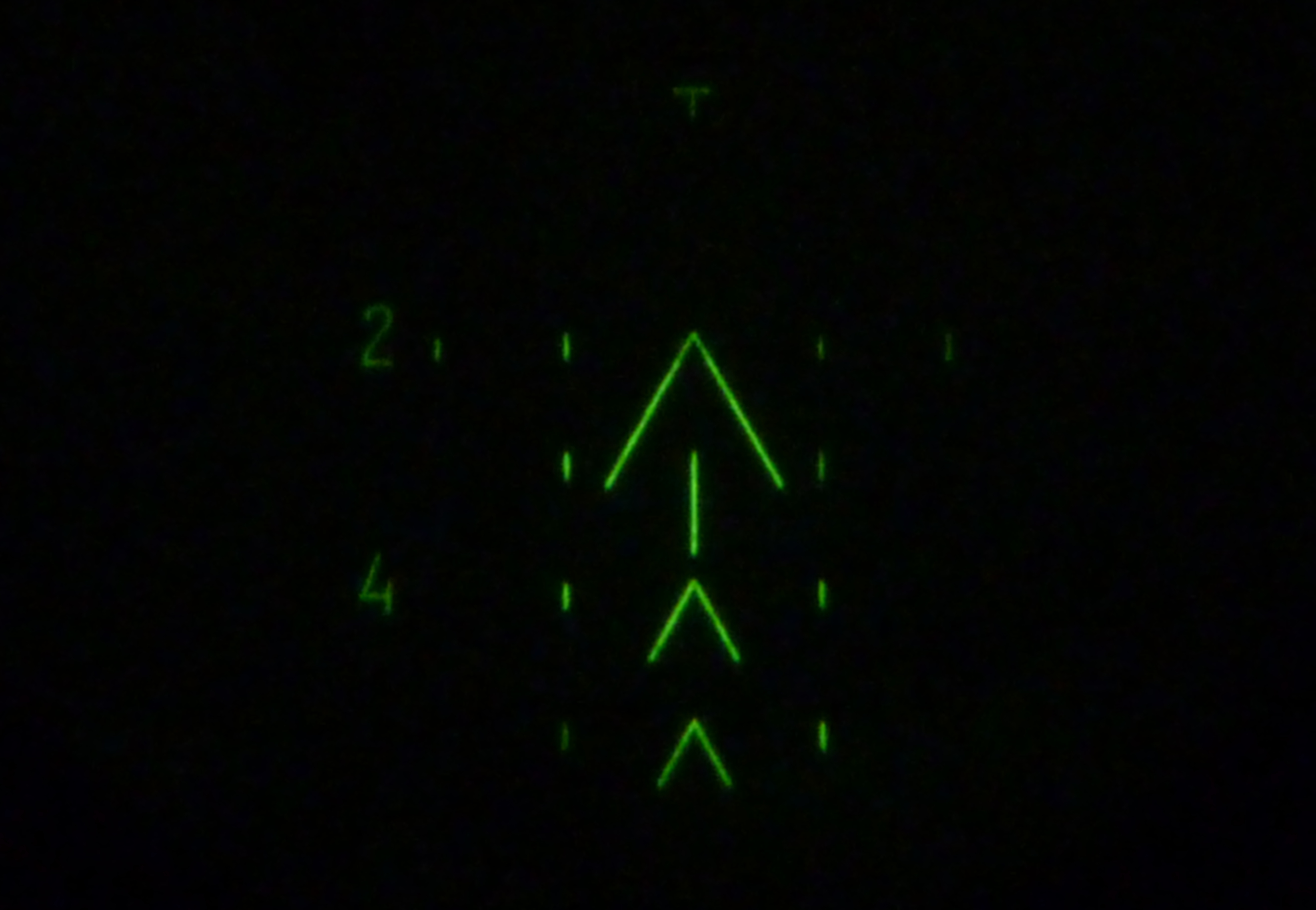 The reticle of a 1PN51-2. The top 'T' has a width of 3 mil. The largest inverted V ('ʌ') has a height of 11.9 mil, the vertical line below it 8 mil, the 'ʌ' below that 5 mil and the smallest 'ʌ' 4.8 mil. An M1 Abrams with its height of 2.4 m that fills out the largest 'ʌ' is thus observed at a distance of 200 m, and if it fills out the smallest 'ʌ' it is observed at a distance of 500 m. NATO Foreign Weapons Training. (5/5).